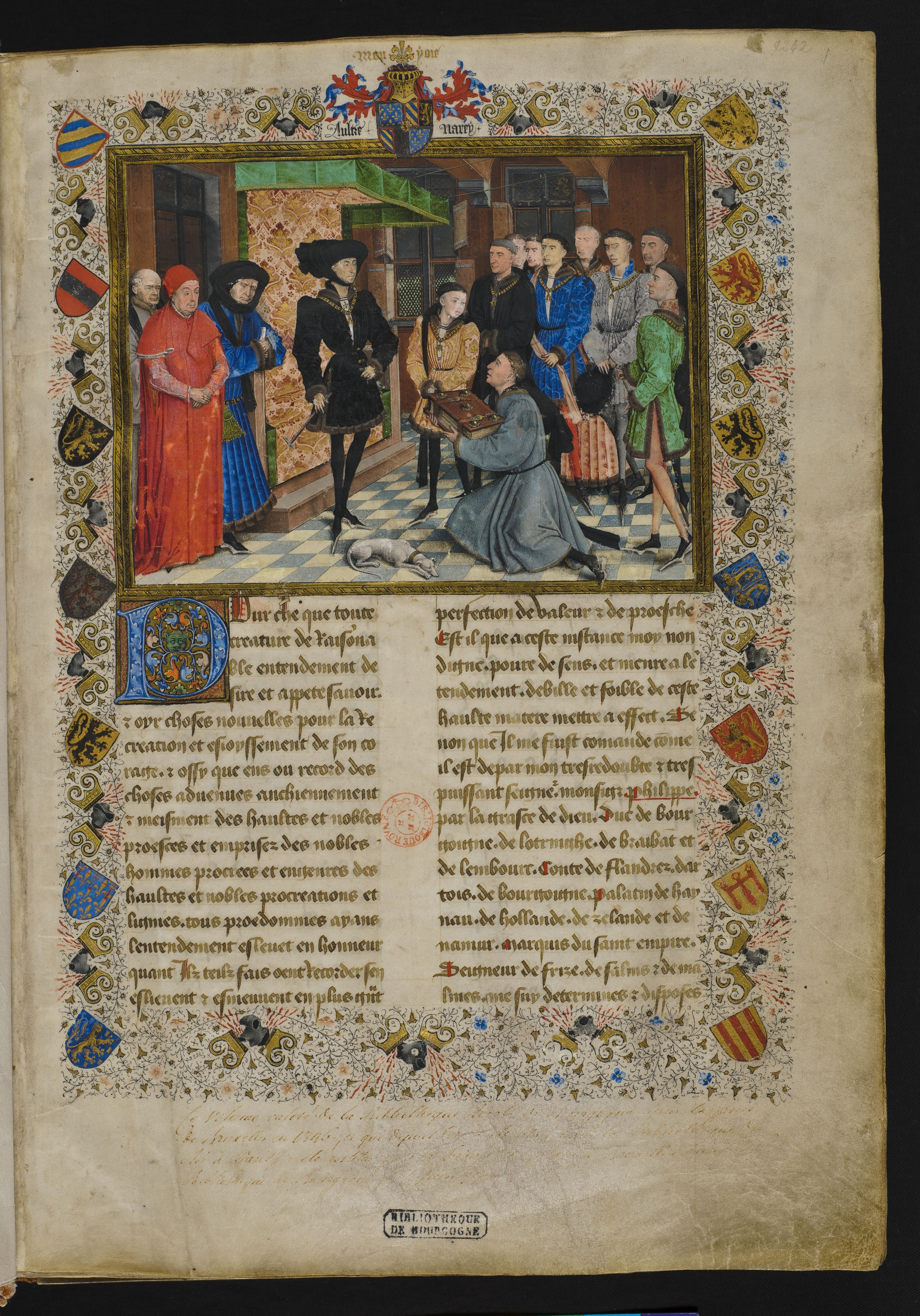 frontispiece of the Chroniques de Hainaut Depicted people: Jean Wauquelin, Philippe le Bon, Charles le Téméraire, Nicolas Rolin and Jean Chevrot